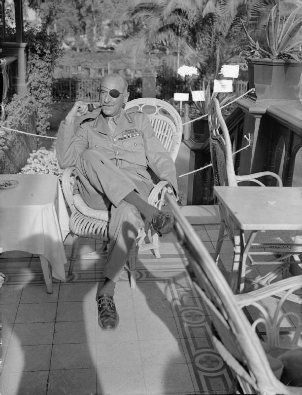 British Generals 1939-1945 Lieutenant General Sir Adrian Carton de Wiart VC (1880-1963): Portrait of General Carton de Wiart, seated, during the Three-Power conference in Cairo.